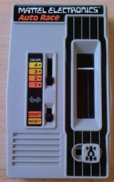 The picture shows a Mattel Auto Race handheld game console from 1976